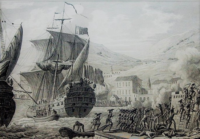 Invasion of Cape Haitian by the French army.